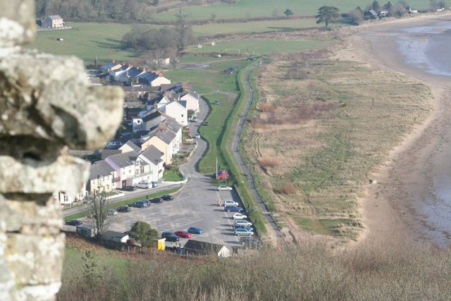 The Green, Llansteffan from the castle